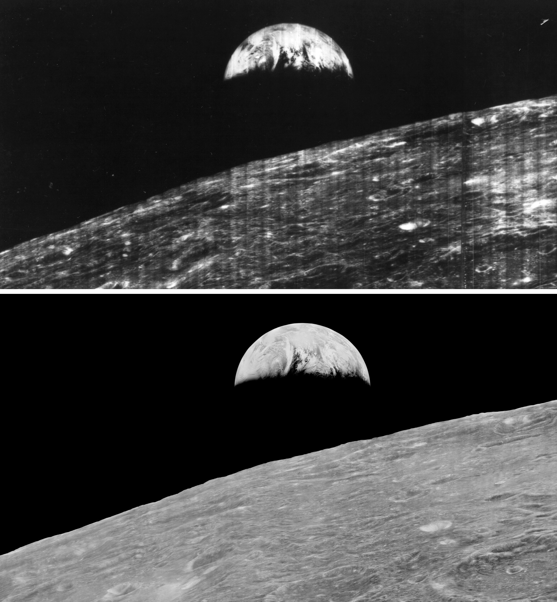 Comparison of the old and the restored version of a famous photo from Lunar Orbiter